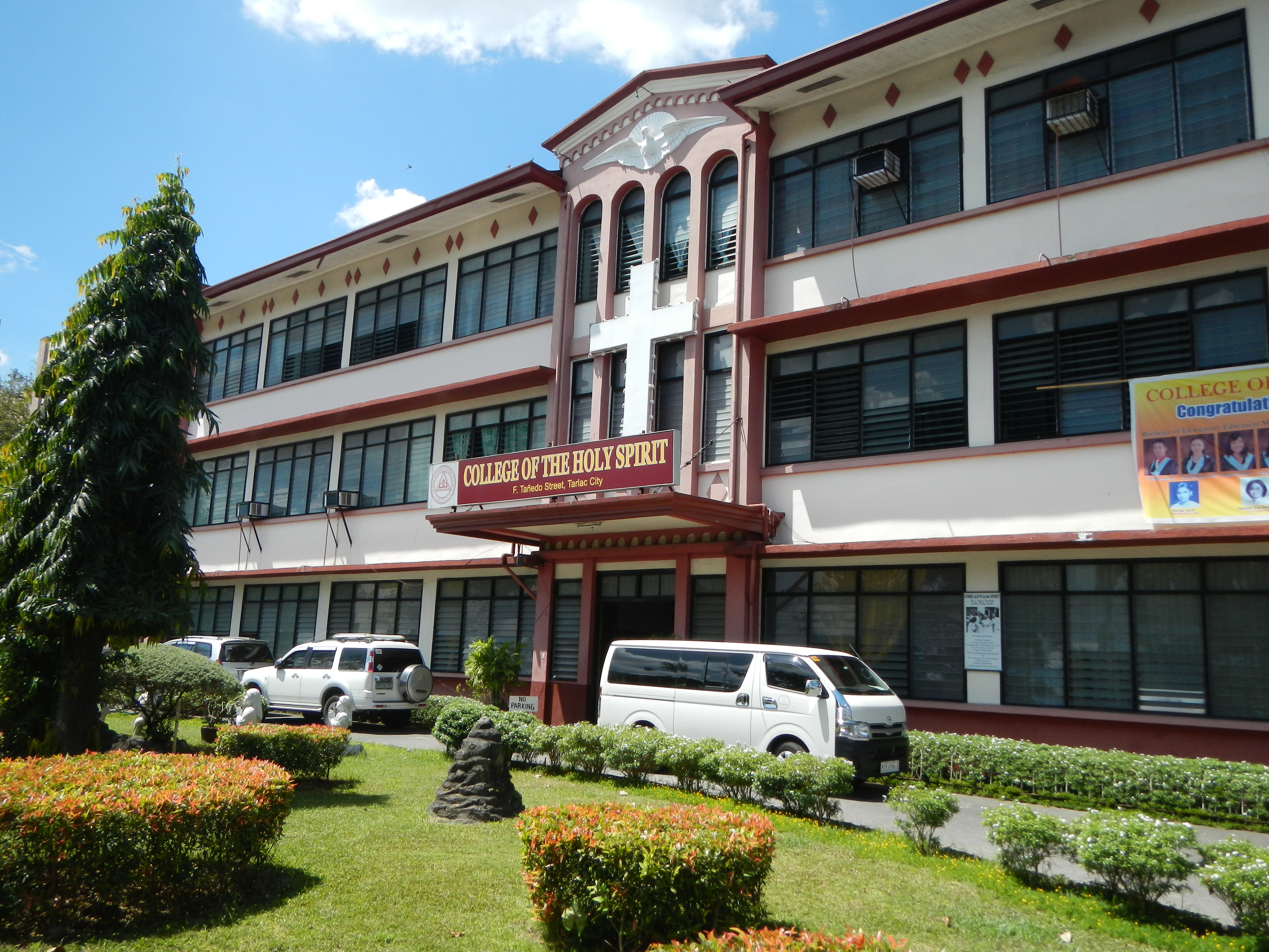 Photos of College of the Holy Spirit of Tarlac F. Tañedo St., Tarlac City, Tarlac beside the Tarlac Cathedral.